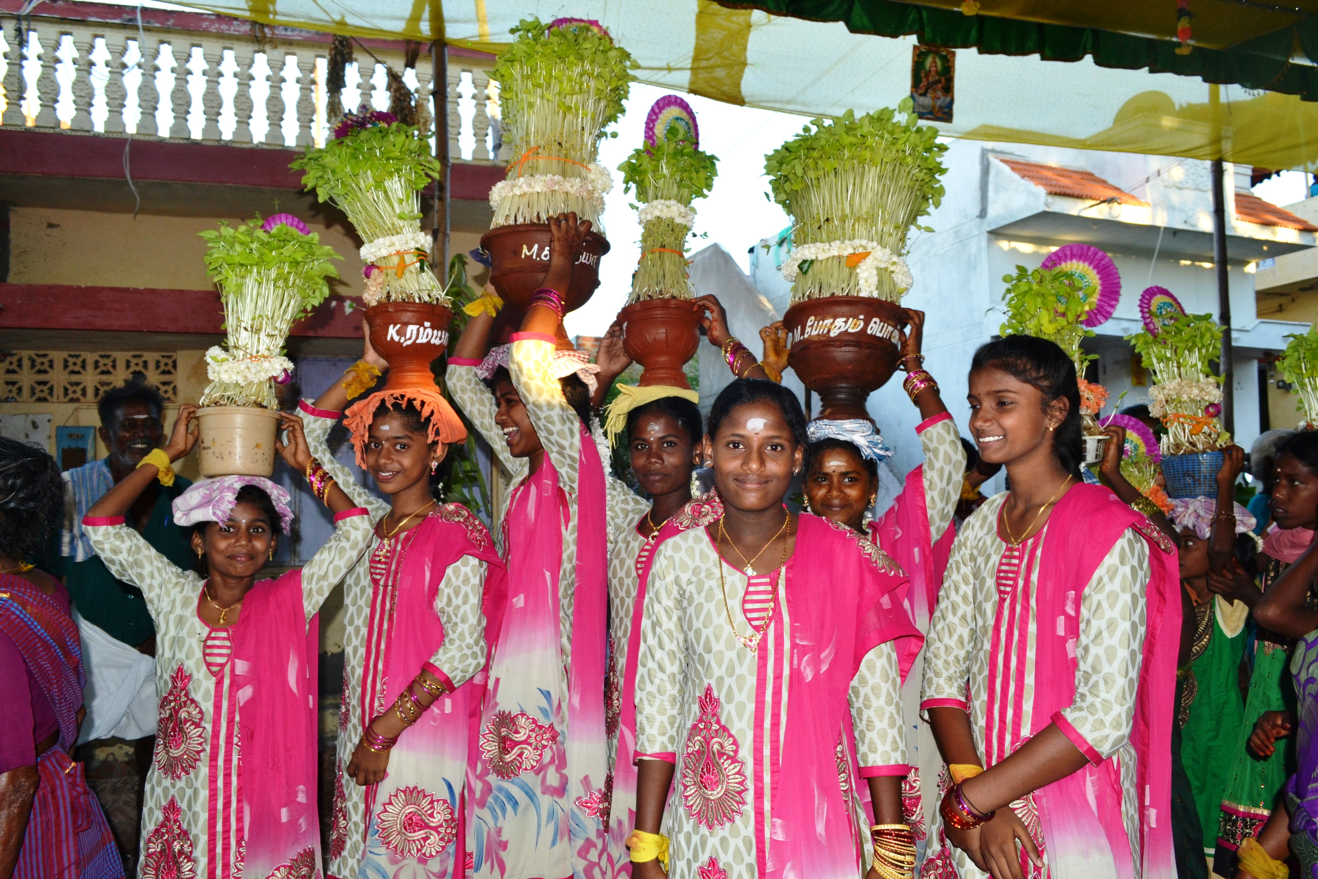 Mulaipari is a women's ritual celebrated in Village Goddess Festivals in Tamil Nadu. The ritual is celebrated to get a rich harvest and plenty of rain. Especially, the Village Goddess Mariyamman is in her most original form a Rain Goddess. Normally, the Mulaipari procession takes place on the 9th day after planting the Mulaipari ( nine germinated grains, planted by a Mulaipari expert, usually an elderly lady). This photo has been taken in the country: India